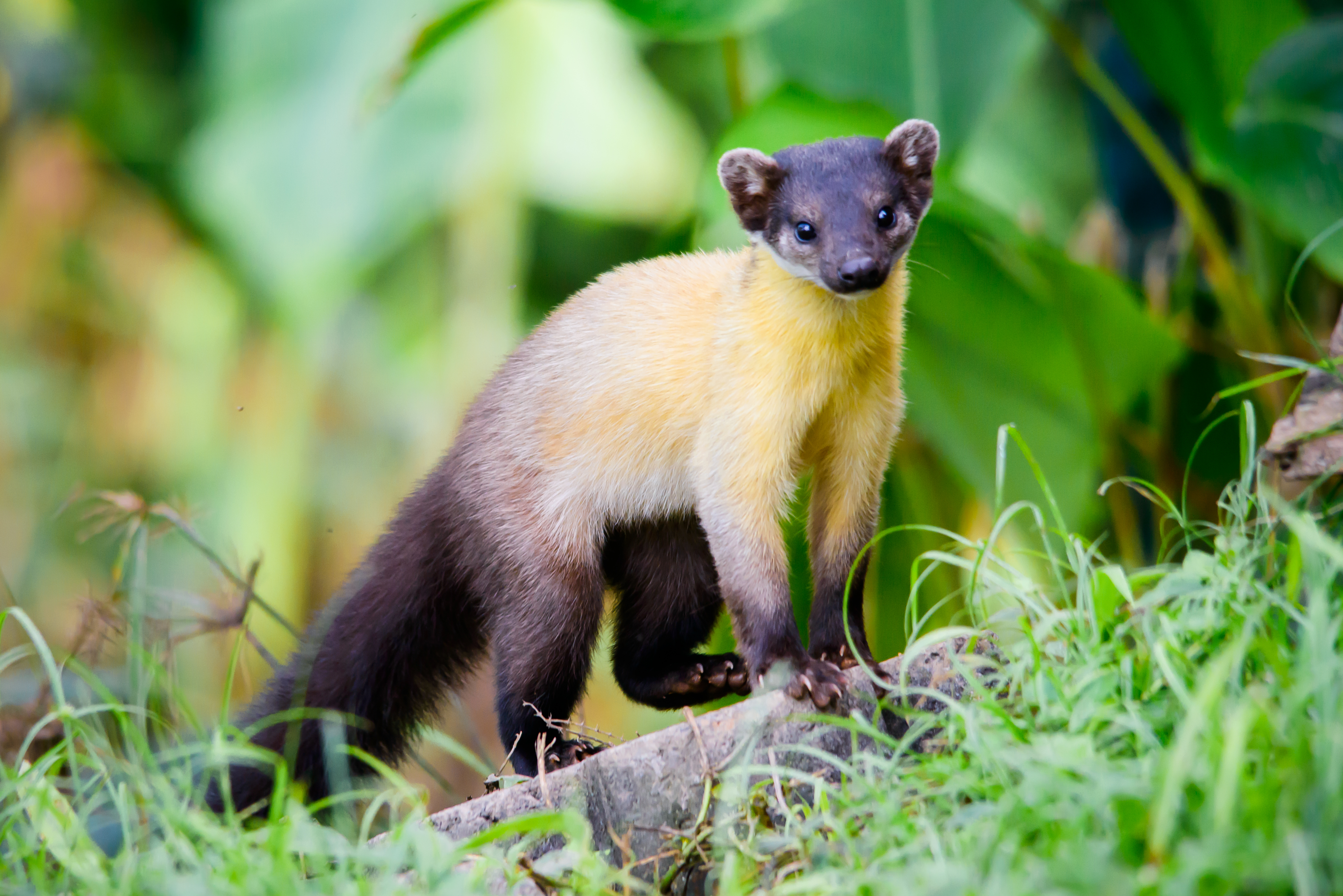 This photo is published under Creative Commons Attribution-Share-Alike Licence, means you are free to use this photo with attribution under same licence. For credits, please use following; Owner: Thai National Parks Link